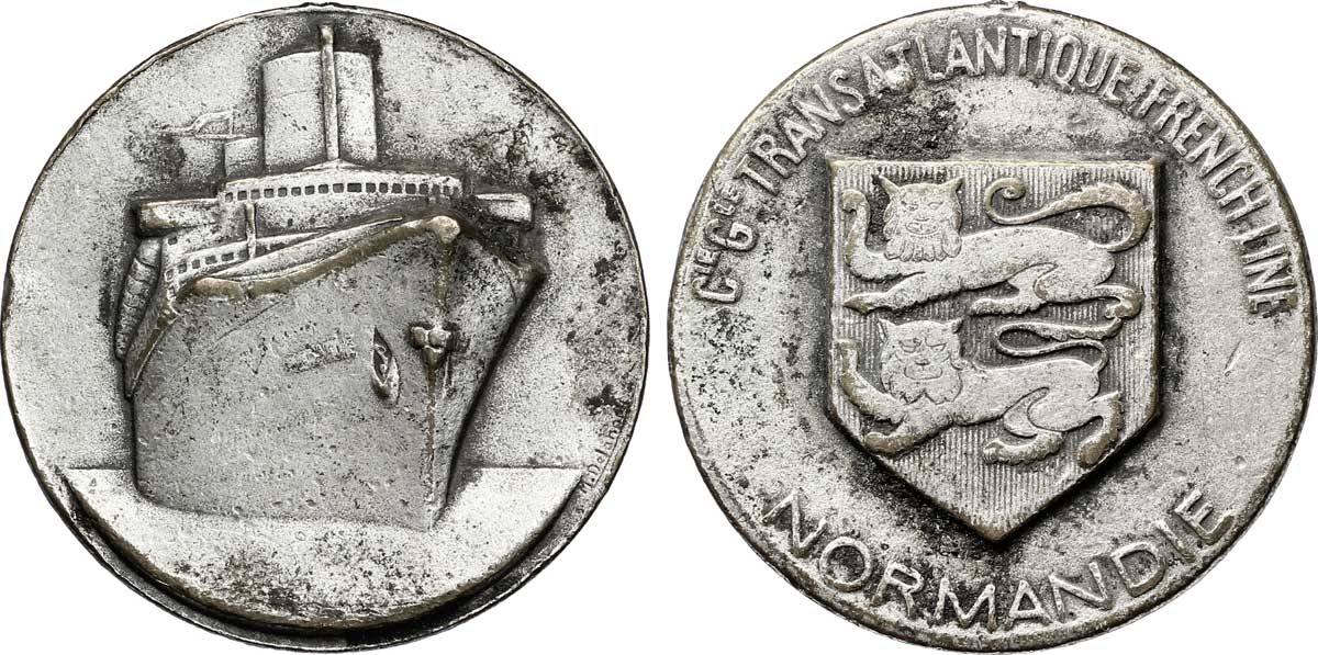 Jeton du paquebot Normandie, 1930-1940. La biographie de ce bateau se trouve en détail à “Bien que sa carrière fut courte, le Normandie a laissé une profonde empreinte dans les mentalités à travers le monde. C'est en effet le seul paquebot français à avoir remporté le Ruban bleu. Ses installations luxueuses ont également été réputées à l'époque, et font qu'il est souvent considéré comme le plus beau et le plus luxueux des paquebots jamais construits. Il apparaît dans plusieurs films et ses éléments décoratifs, démontés et débarqués avant les travaux de transformation, ont été répartis dans plusieurs musées et collections particulières à travers le monde. Il reste aujourd'hui l'un des plus luxueux paquebot de l'histoire.”.